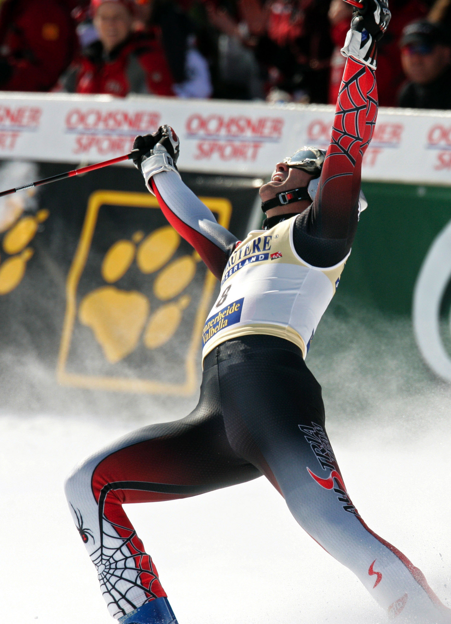 Lenzerheide. Stephan Görgl